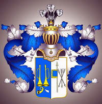 Coat of Arms of Kolubakin family